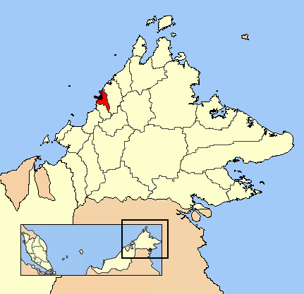 location map of Kota Kinabalu. created using aquarius OMC, and MS Paint.